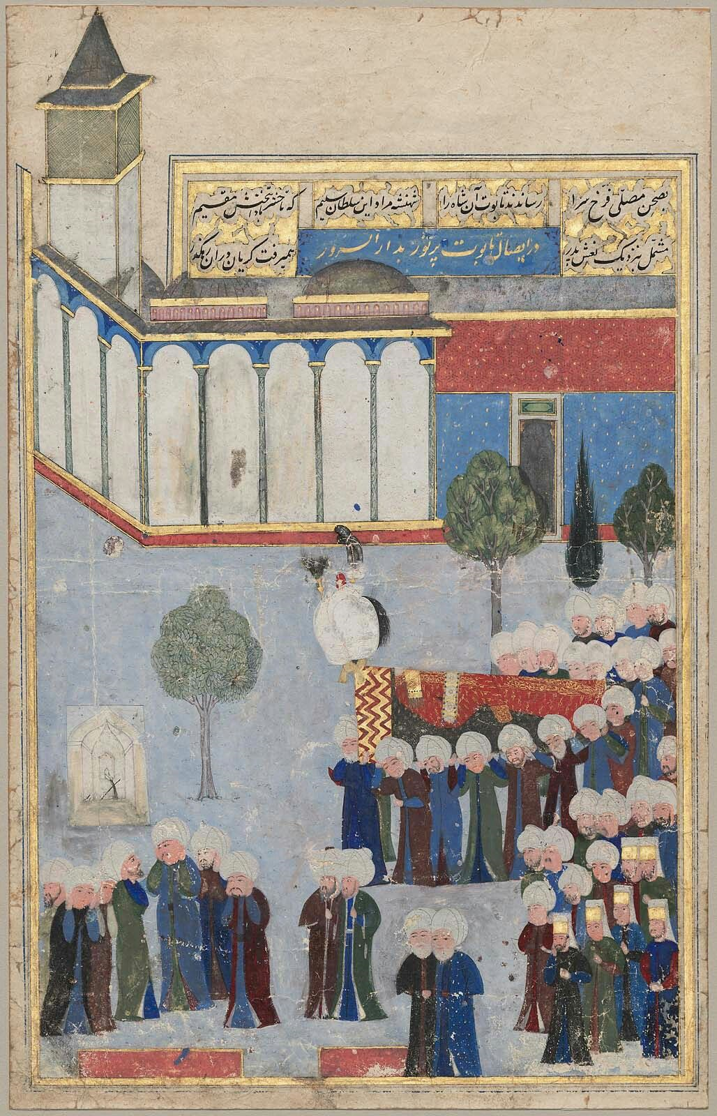 Funeral of Murat II